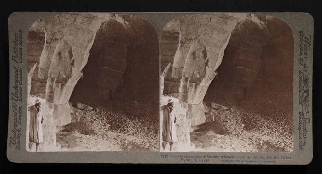 Man leaning on the outer wall of the quarry chambers of Masara